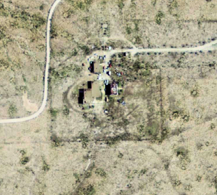 USGS digital orthophoto of Air Defense Command Radar Station TM-186 at Pyote Air Force Station in Texas